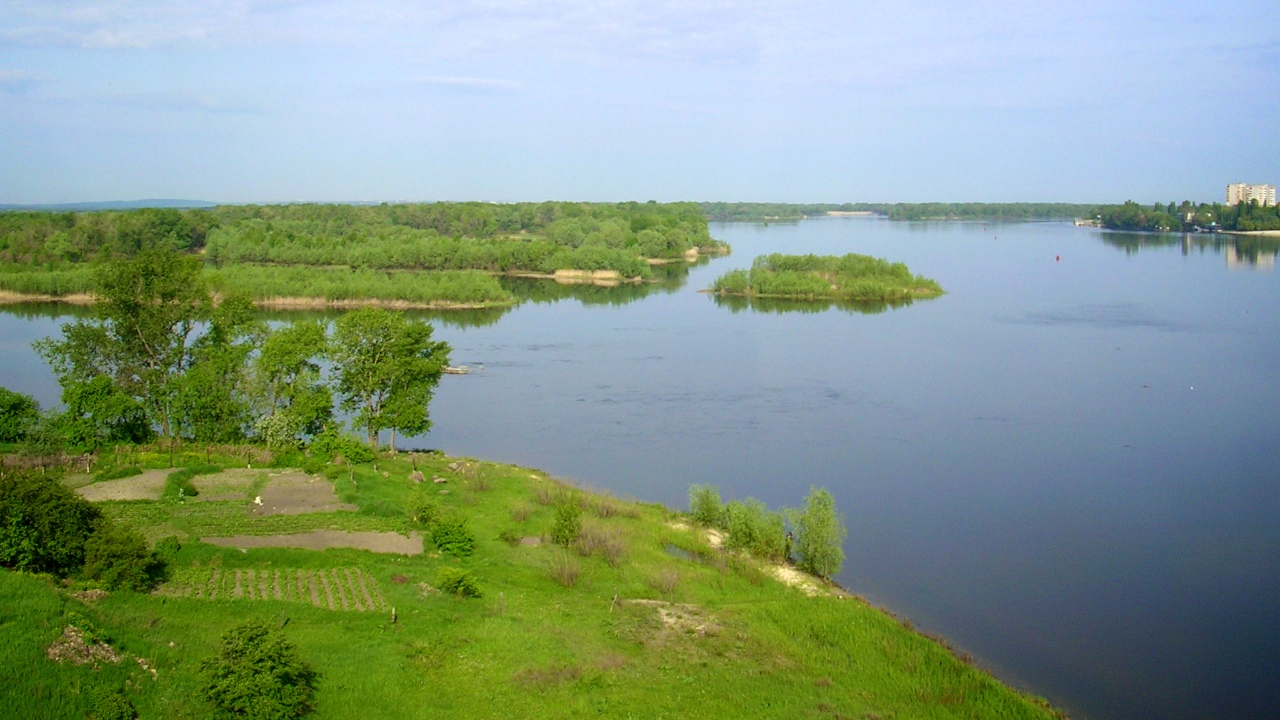 Dnipro river, Kremenchug, Ukraine